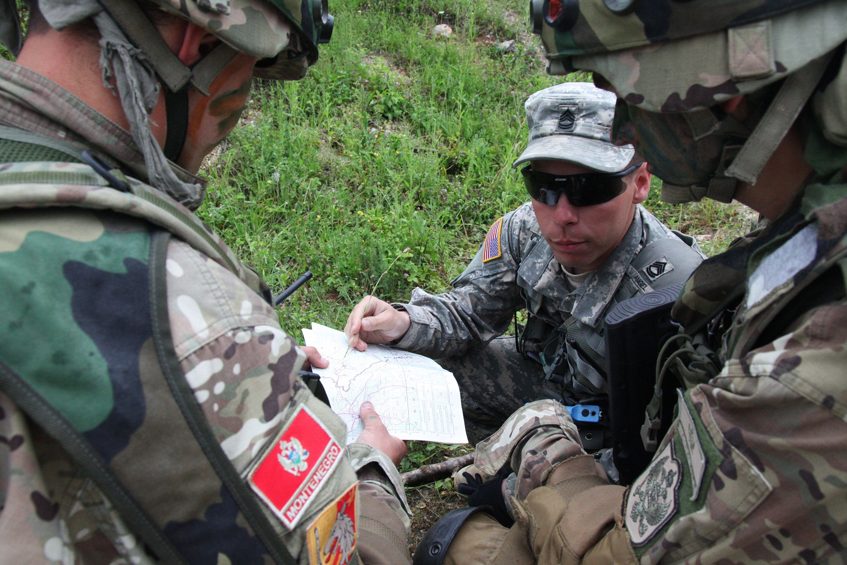 Sgt. 1st Class Randy Angel, an observer-controller with U.S. Army Euope's Joint Multinational Training Command, gives instructions to members of the Montenegrin army as they an ambush training during exercise Immediate Response 2012 in Slunj, Croatia, June 1. IR12 is a multinational tactical field training exercise involving more than 700 personnel from U.S. Army Europe’s 2nd Cavalry Regiment and Croatian armed forces, with contingents from Albania, Bosnia-Herzegovina, Montenegro and Slovenia. Macedonia and Serbia will send observers to the exercise. (Photo by Spc. Lorenzo Ware)